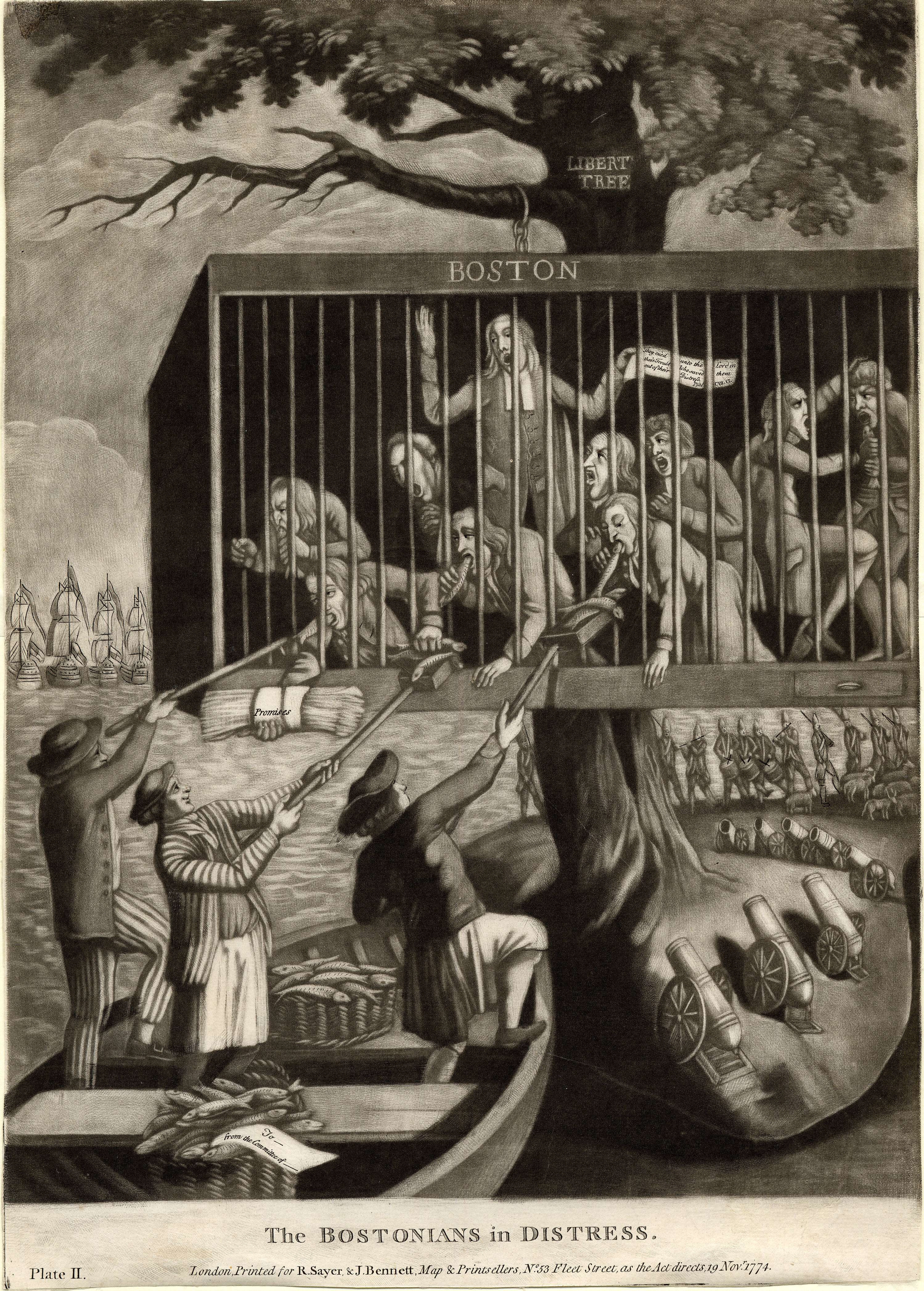 "The Bostonians in Distress," Satirical drawing of the plight of the citizens of Boston, Massachusetts, during the closing of the Port of Boston in 1774. Illustration shows the English artillery aimed at the city by British General Thomas Gage, in an effort to cut the city off and starve its inhabitants. Psalm 107.6 of the Bible is written on a paper held by the standing captive which reads "They cried unto the Lord in their Trouble & he saved them out of their Distress"